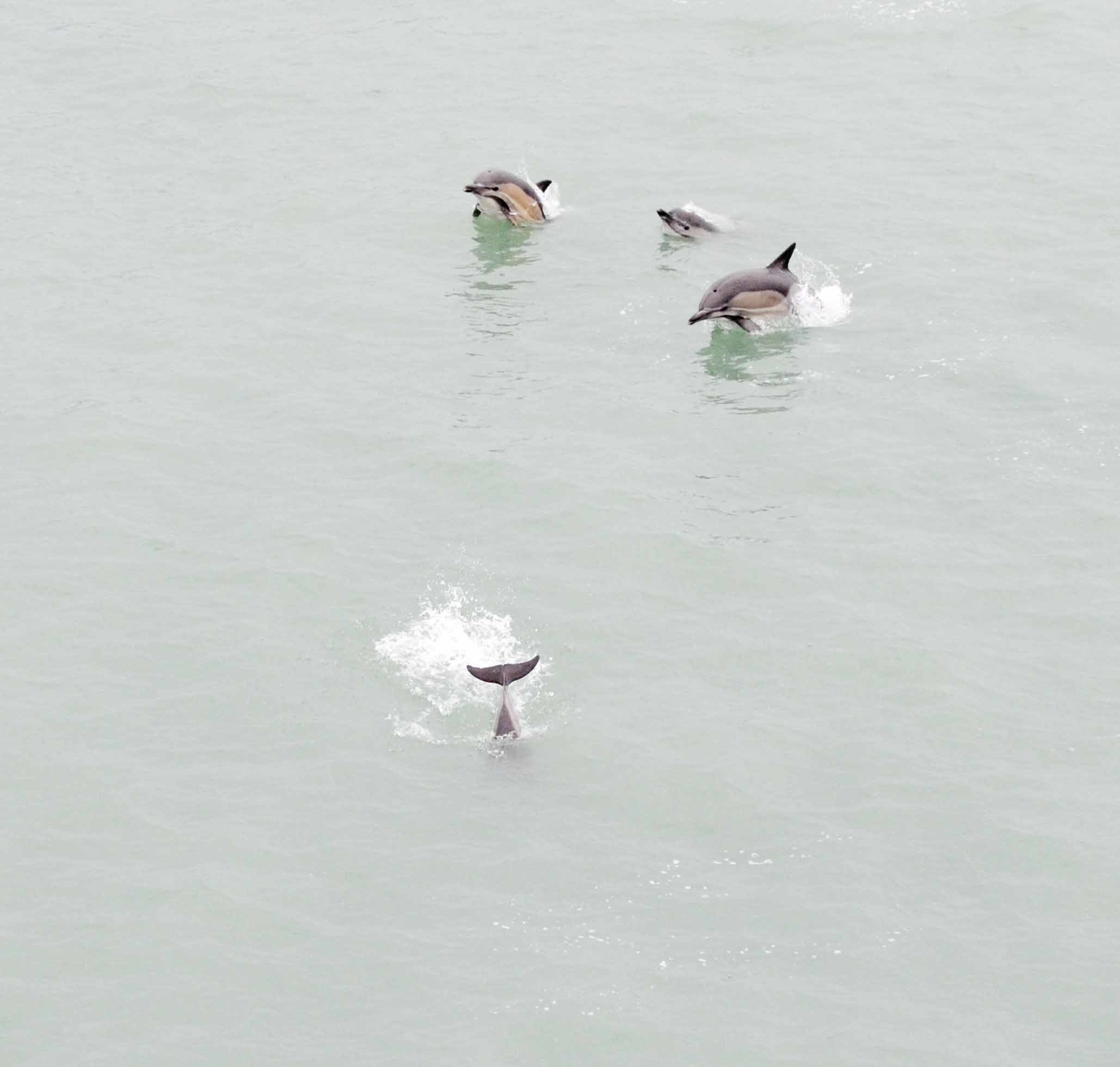 Dolphins swim beside a ferry outside the port of Batumi, Georgia, May 5, 2015. The ferry was transporting Soldiers, assigned to Company A, 2nd Battalion, 7th Infantry Regiment, 1st Armored Brigade Combat Team, 3rd Infantry Division, along with the unit’s M2A3 Bradley Fighting Vehicles, across the Black Sea from Bulgaria to Georgia, for Exercise Noble Partner, a bilateral training event focused on enhancing U.S. and Georgian NATO Response Force interoperability. (U.S. Army Photo by Sgt. Brandon Anderson)